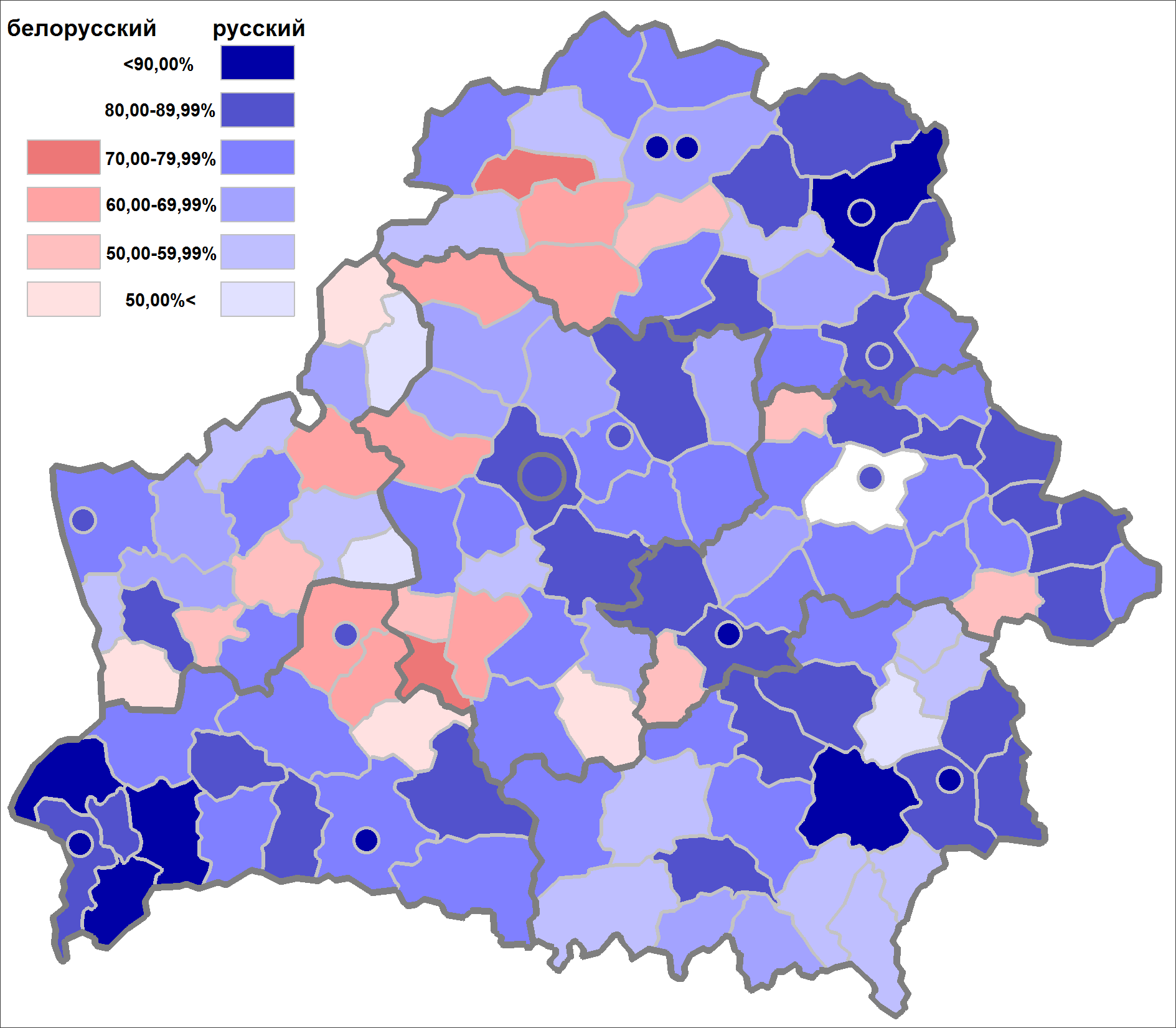 Belarus National Census 2009 languages spoken at home share (urban population): Belarusian (red) and Russian (blue). There is no urban population in Mogilev district so it was not filled